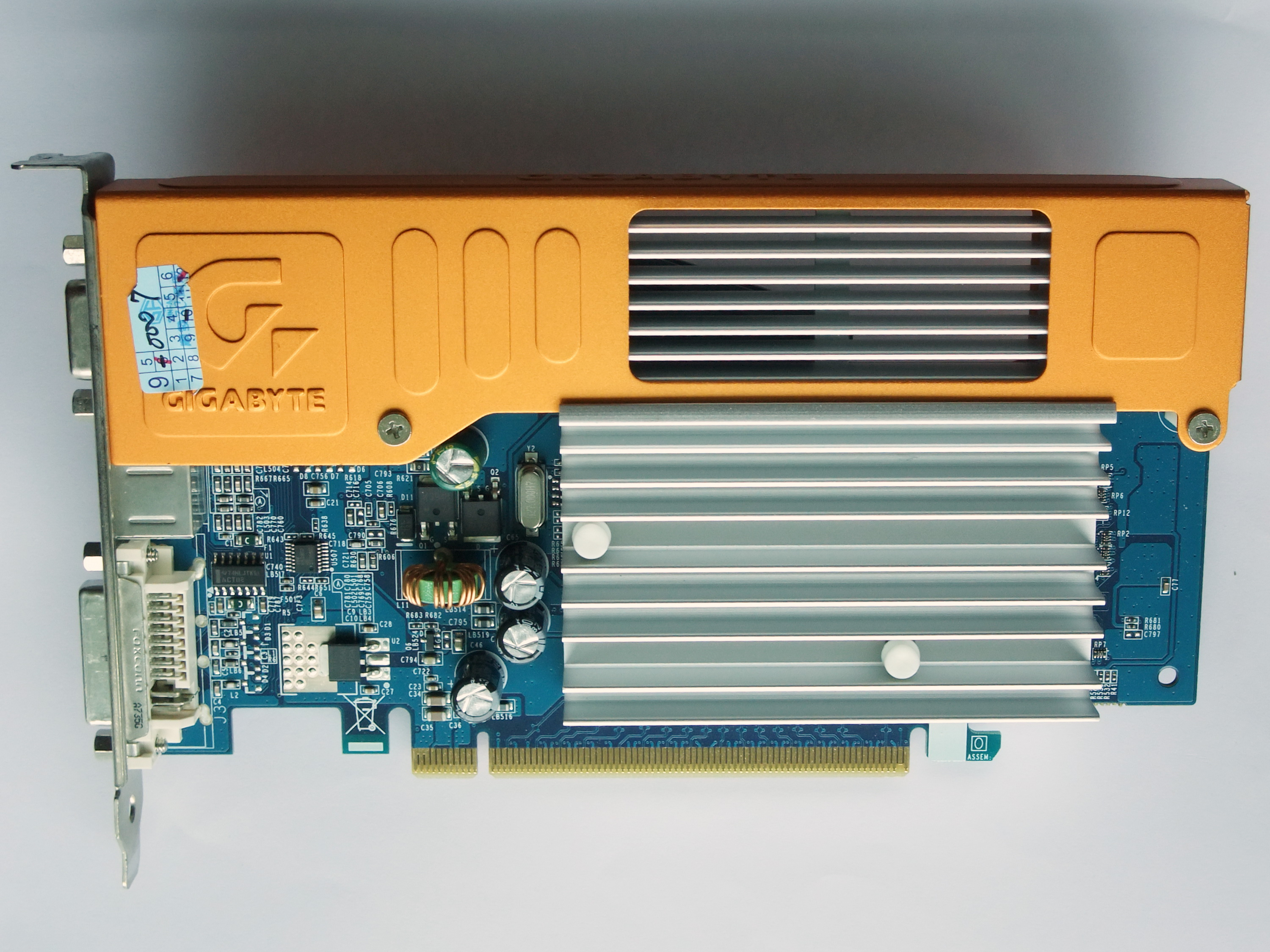 Gigabyte NVIDIA GeForce 7300GS video card, PCI Express graphic bus.